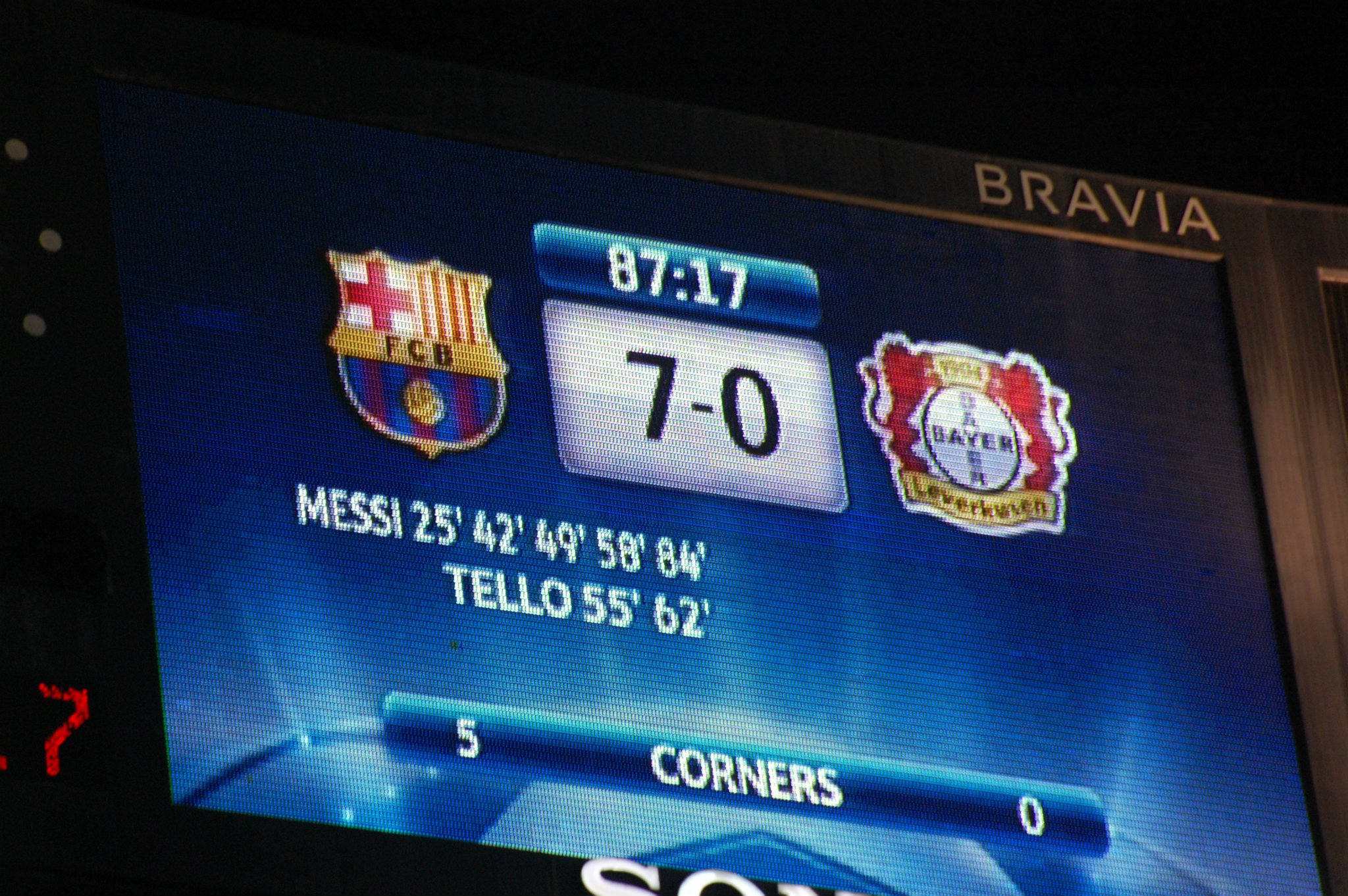 FC Barcelona - Bayer 04 Leverkusen, 1/8 Final UEFA Champions League, Season 2011/2012